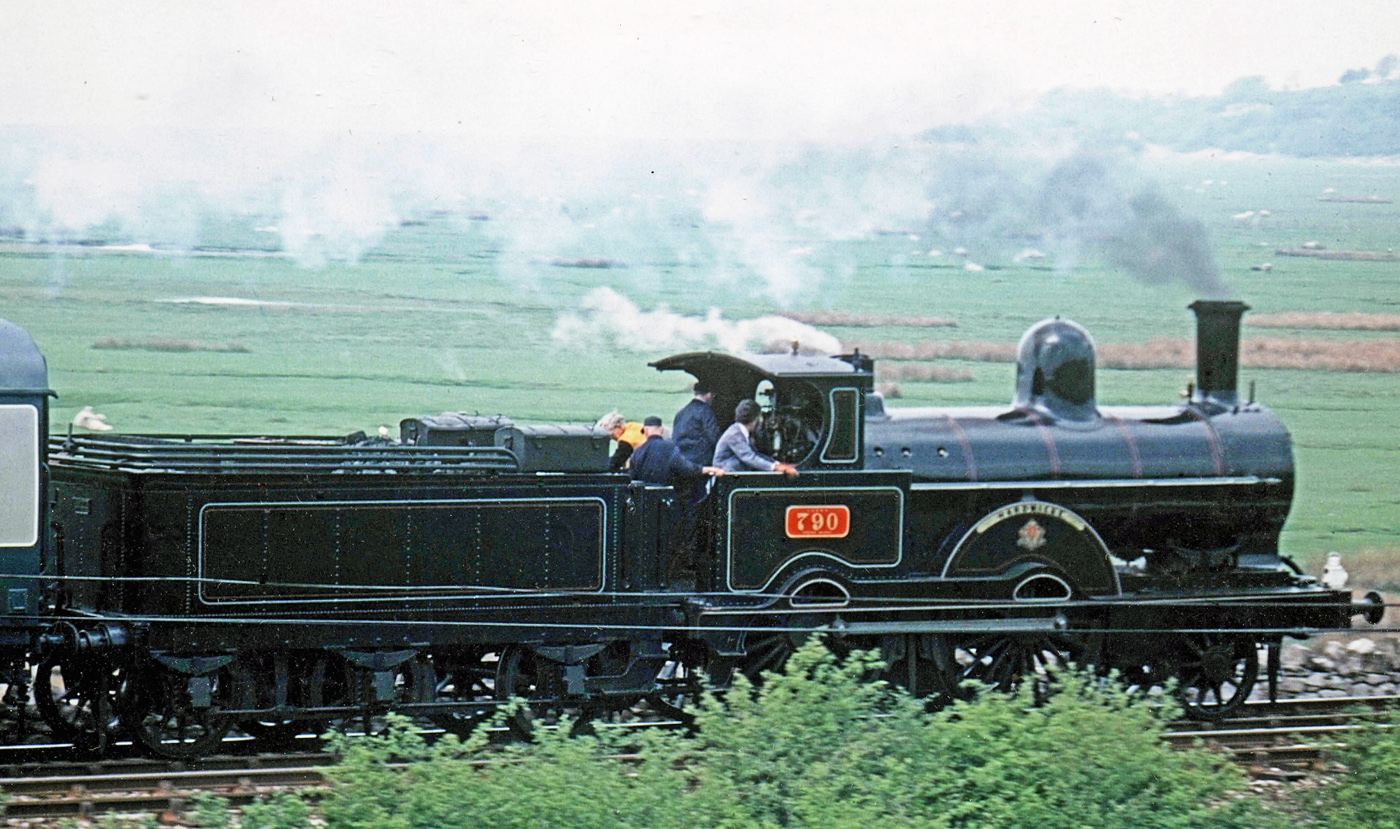 LNWR 2-4-0 Precedent 790 "Hardwicke" hauling a train from Carnforth to Grange-over-Sands in May 1976